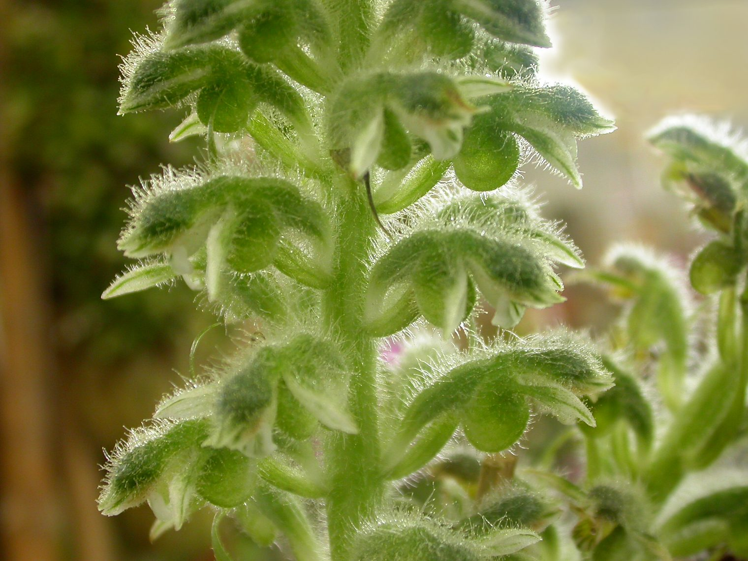 Pelexia bonariensis